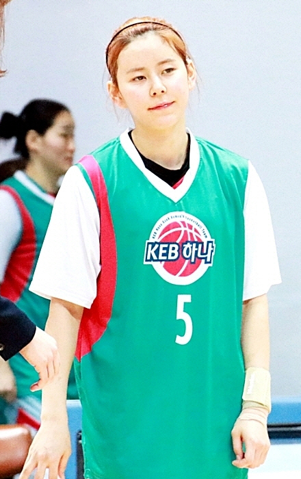 160210 여자농구 신한은행 vs 하나외환 직찍 2